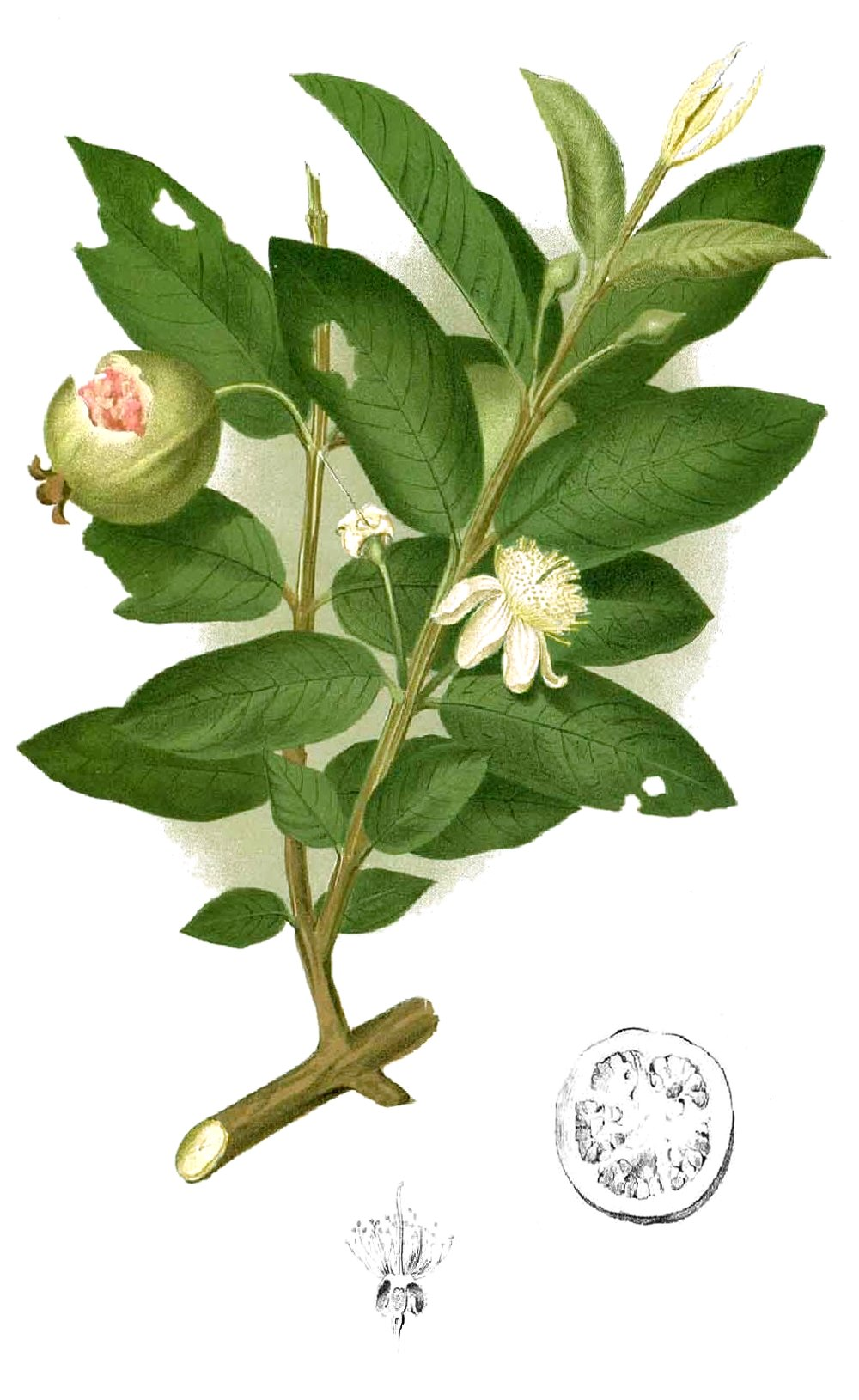 Plate from book